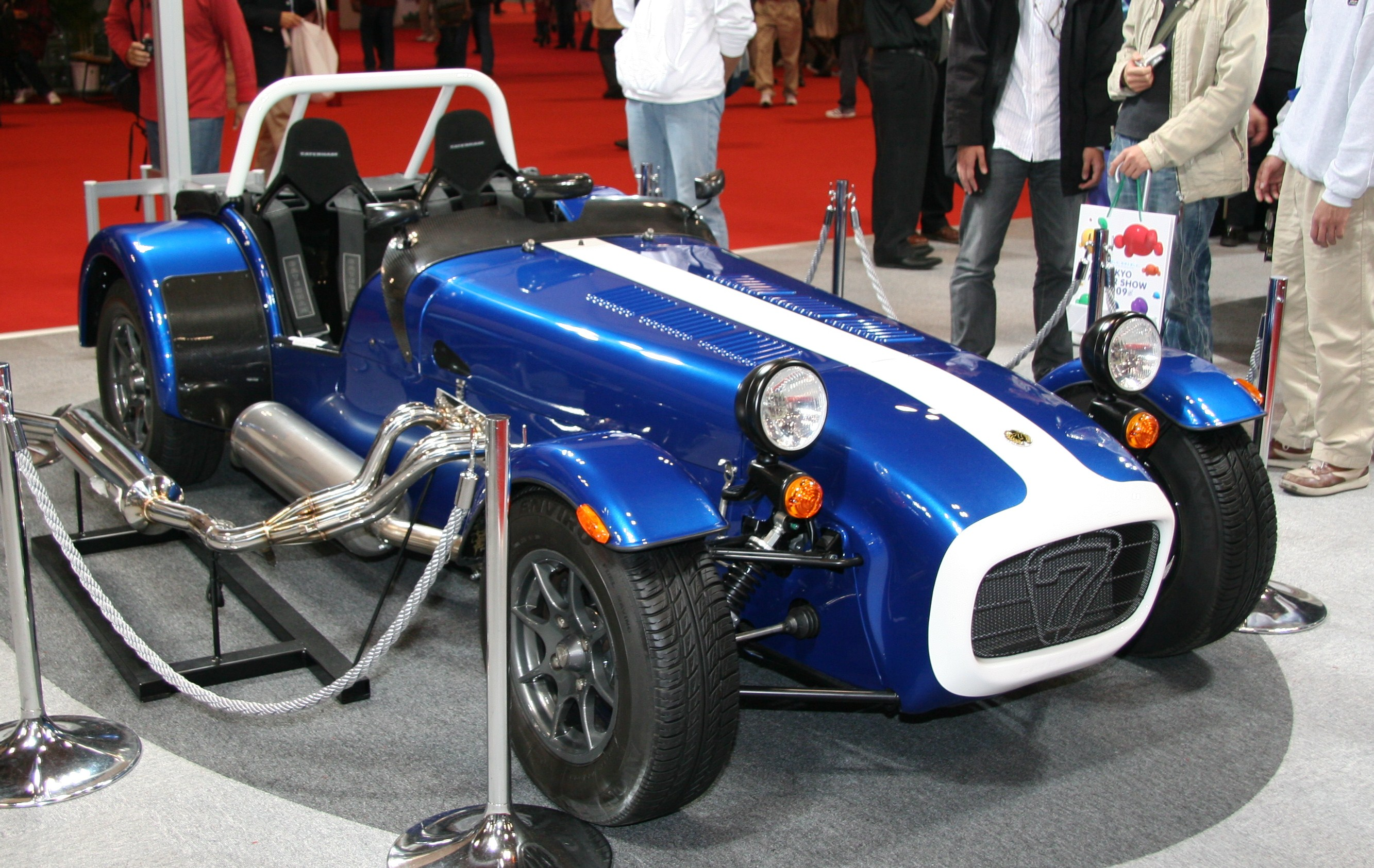 Caterham Superlight R300